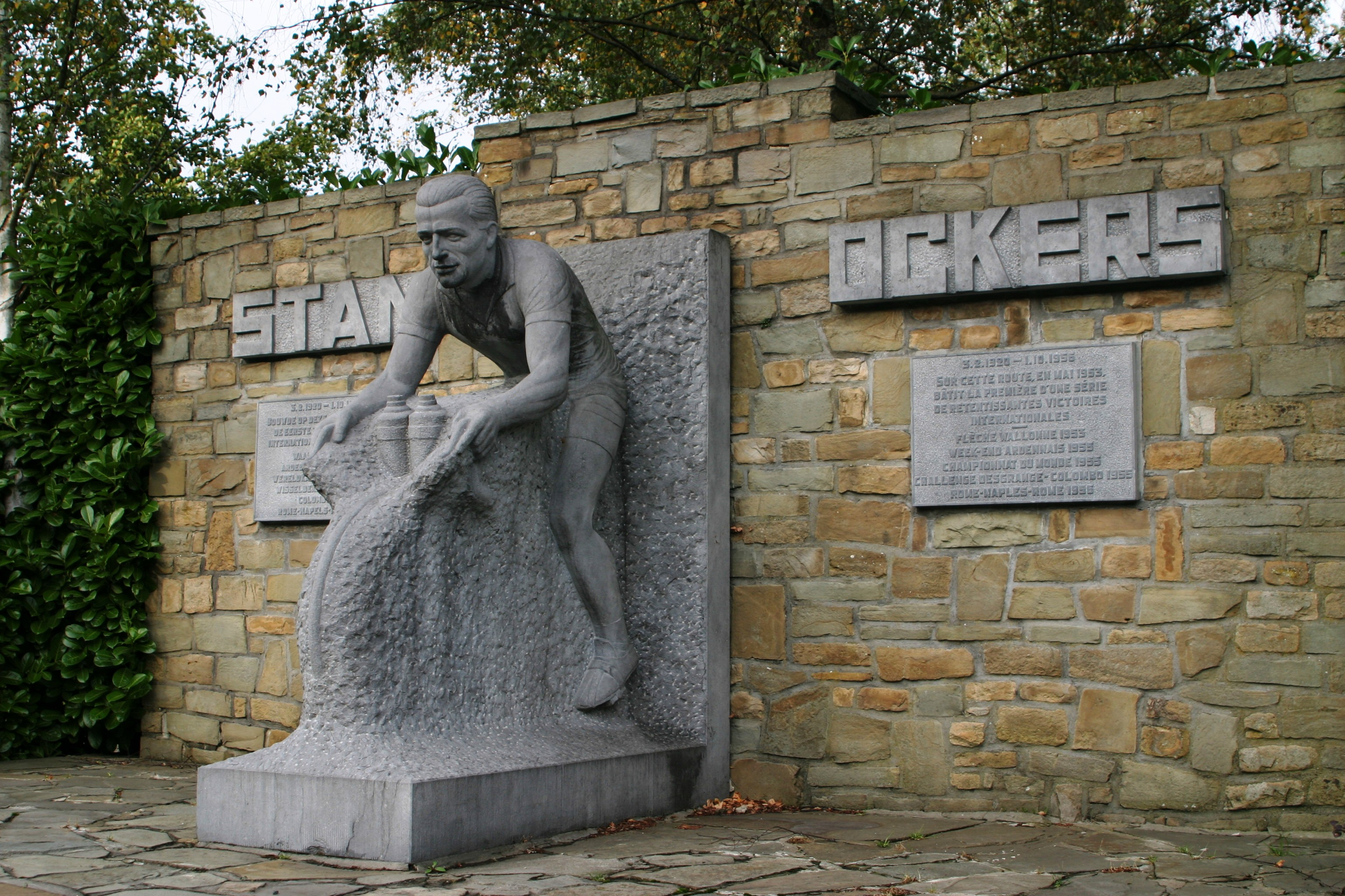 Denkmal fir de Stan Ockers op der Kopp vun der Côte des forges op der Nationale 62 um halwe Wee tëschent Beaufays a Louveigné. Quell: eege Foto vum Les Meloures (Luxemburg) Monument for Stan Ackers. Source: own picture (not mine but from user Les Meloures) (English)